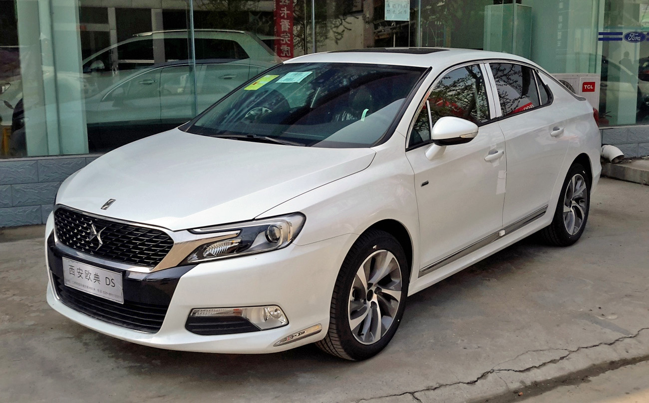 DS 5LS photographed in Xi'an, Shaanxi province, China.